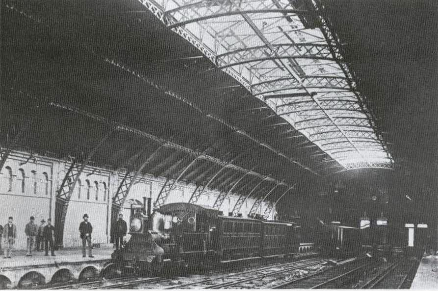 Photograph of Cape Town station in 1875. Note the dual gauge tracks, 4 ft 8½ in broad gauge and 3 ft 6 in Cape gauge. From the Cape Archives